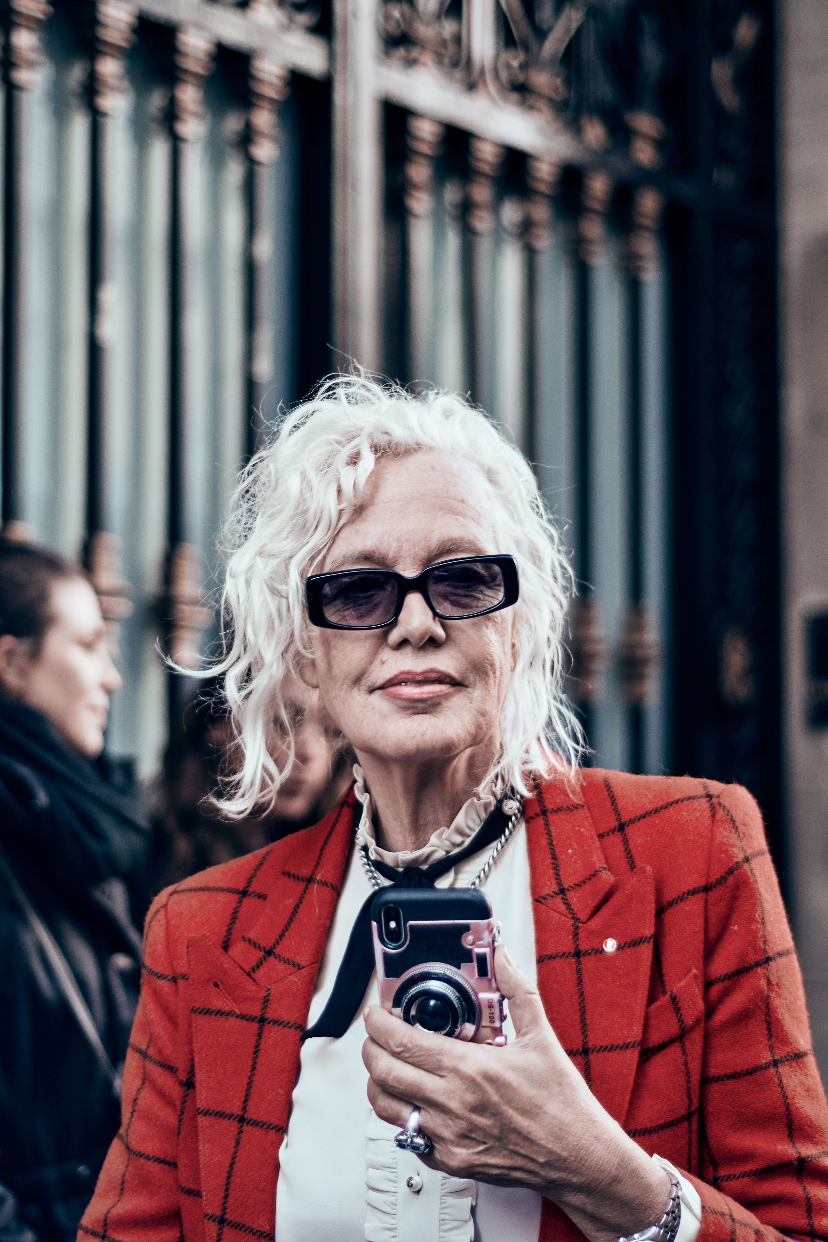 Ellen von Unwerth at Paris Fashion Week RTW Spring/Summer 2019